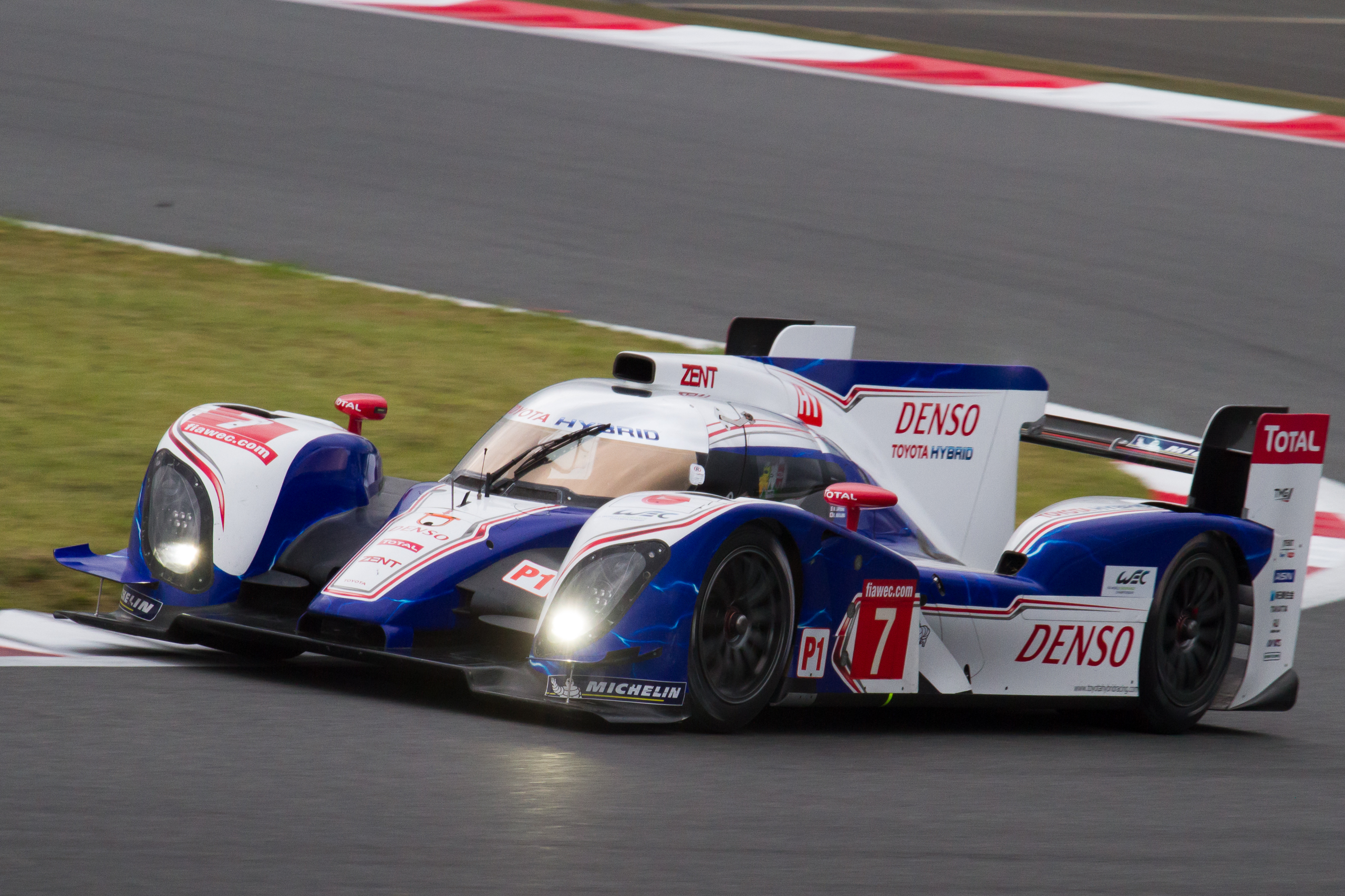 FIA World Endurance Championship 2012 Rd.7 6 Hours of Fuji: #7 Toyota TS030 Hybrid (Toyota Racing), driven by Alexander Wurz.